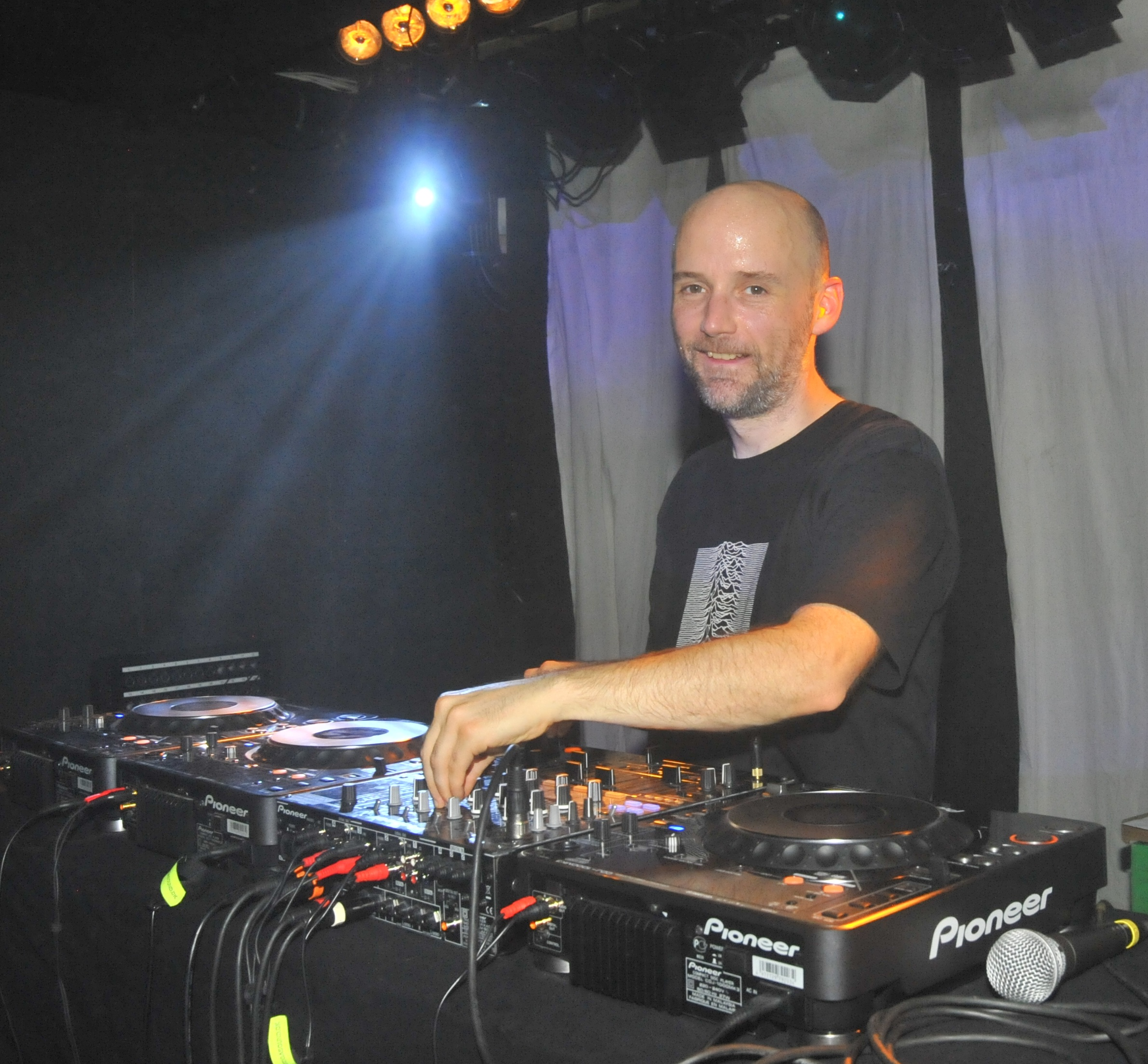 Moby DJ Set on Rust in Copenhagen, Denmark